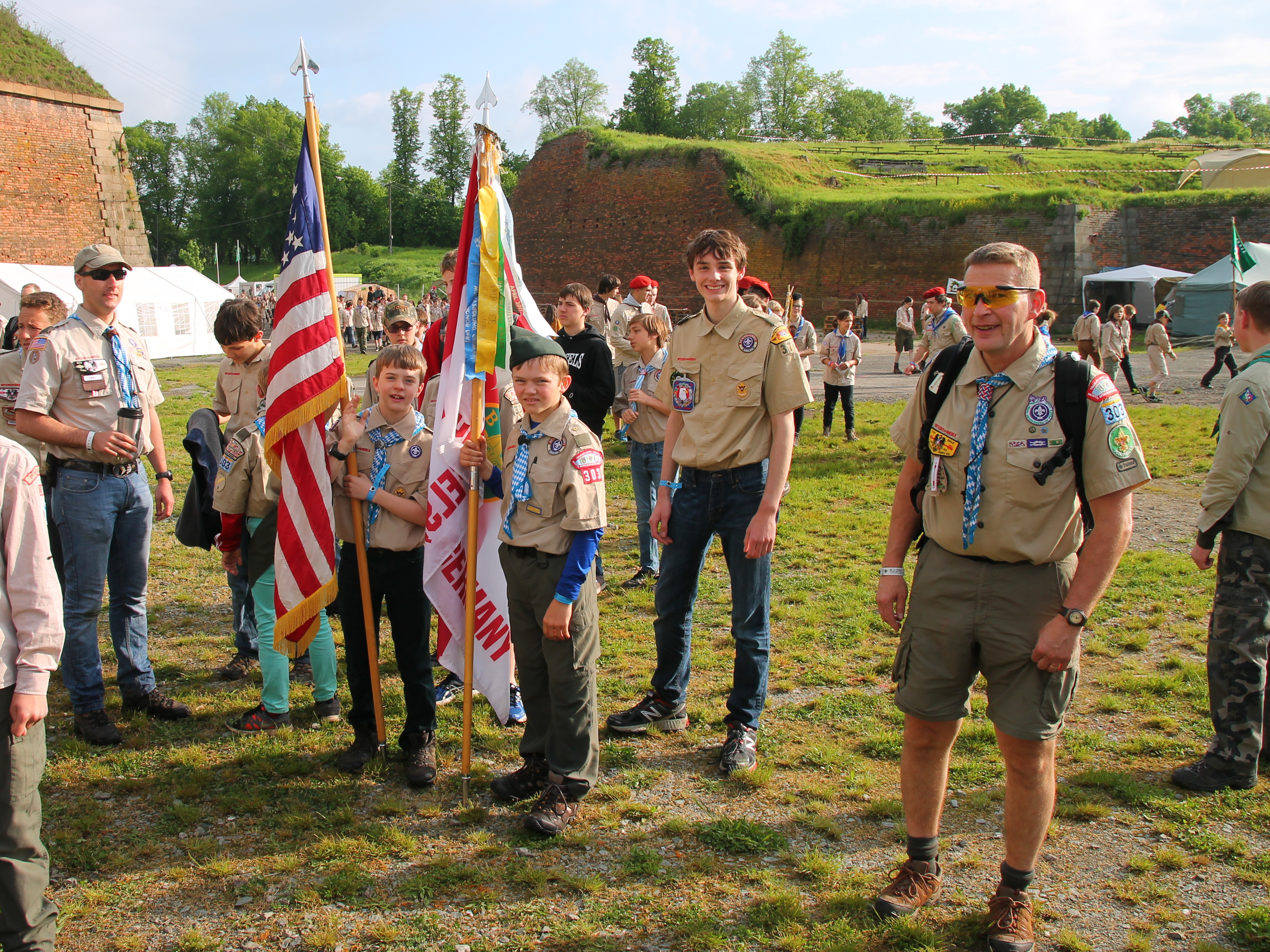 Intercamp 2016 (13.–16. 5. 2016), Josefov fortress, Jaroměře, Czech Republic